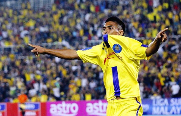 Fauzi Roslan celebrating his goal against Johor Darul Takzim FC.